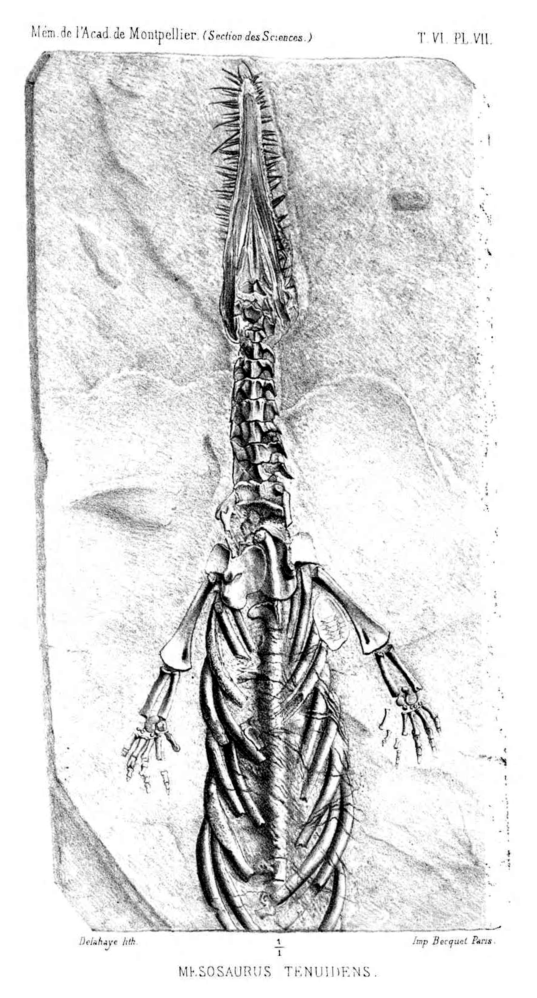 Historical drawing of a cast of the holotype specimen (MNHN 1865-77) of the aquatic reptile Mesosaurus tenuidens GERVAIS 1865 from the Lower Permian of South Africa. The specimen consists of the anterior half of a skeleton in ventral view. Note the thick heavy (pachyostotic) ribs, a trait which is not unusual for secondary aquatic vertebrates.